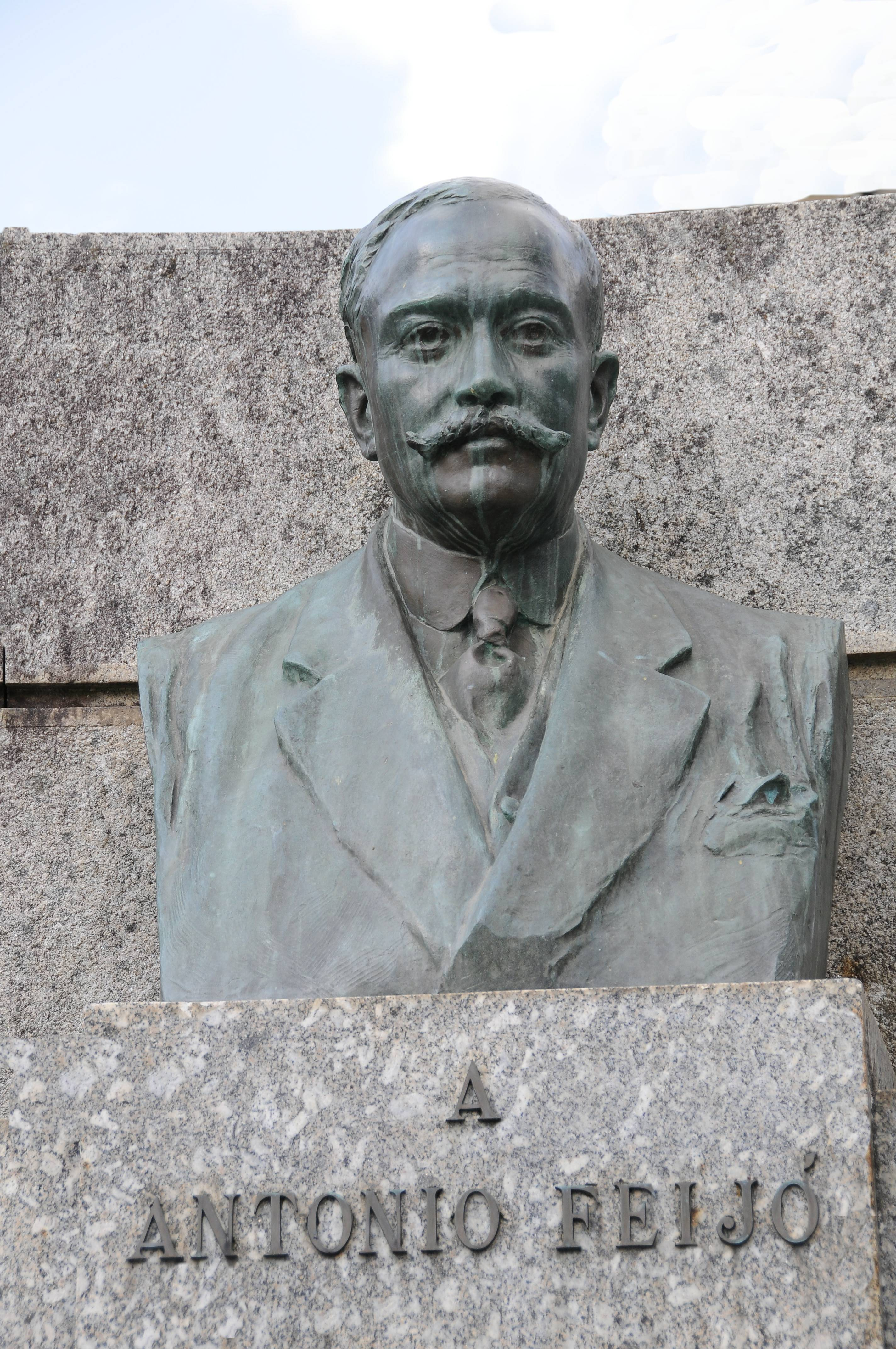 Antonio Feijo Bust in Ponte de Lima, Portugal